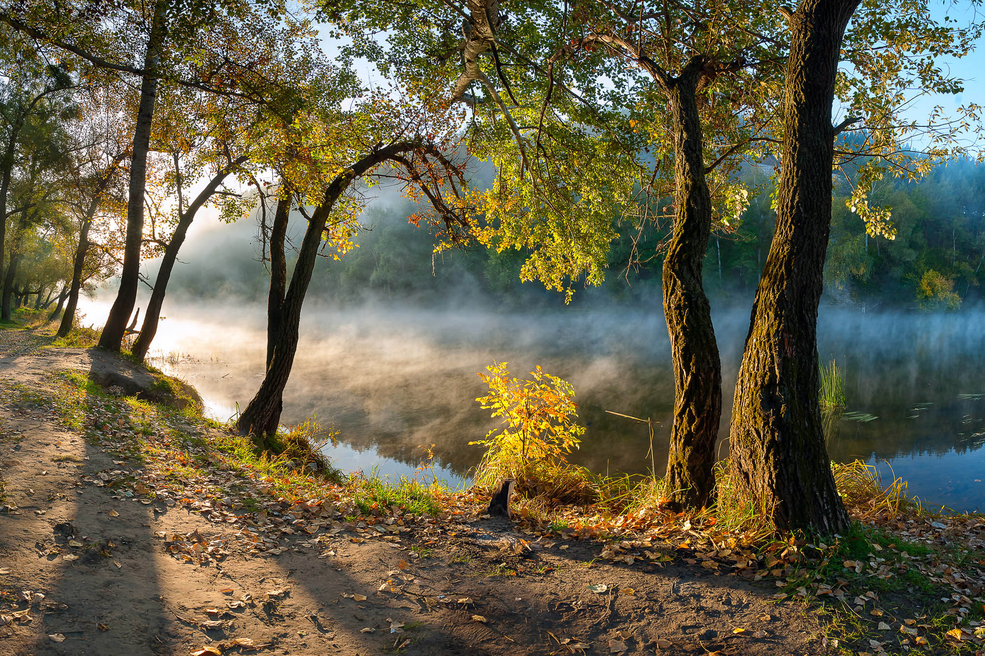 National park "Sviati Hory" (Holy Mountains), Donetsk Oblast, Ukraine.